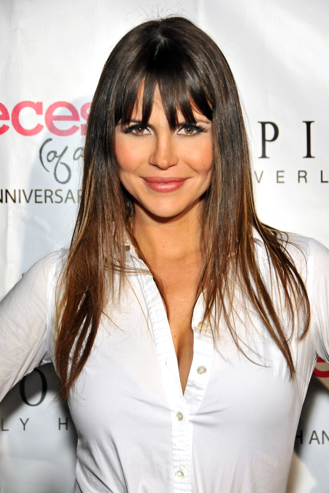 Suzy McCoppin, Hollywood, California on March 28, 2013 - Photo by Glenn Francis of